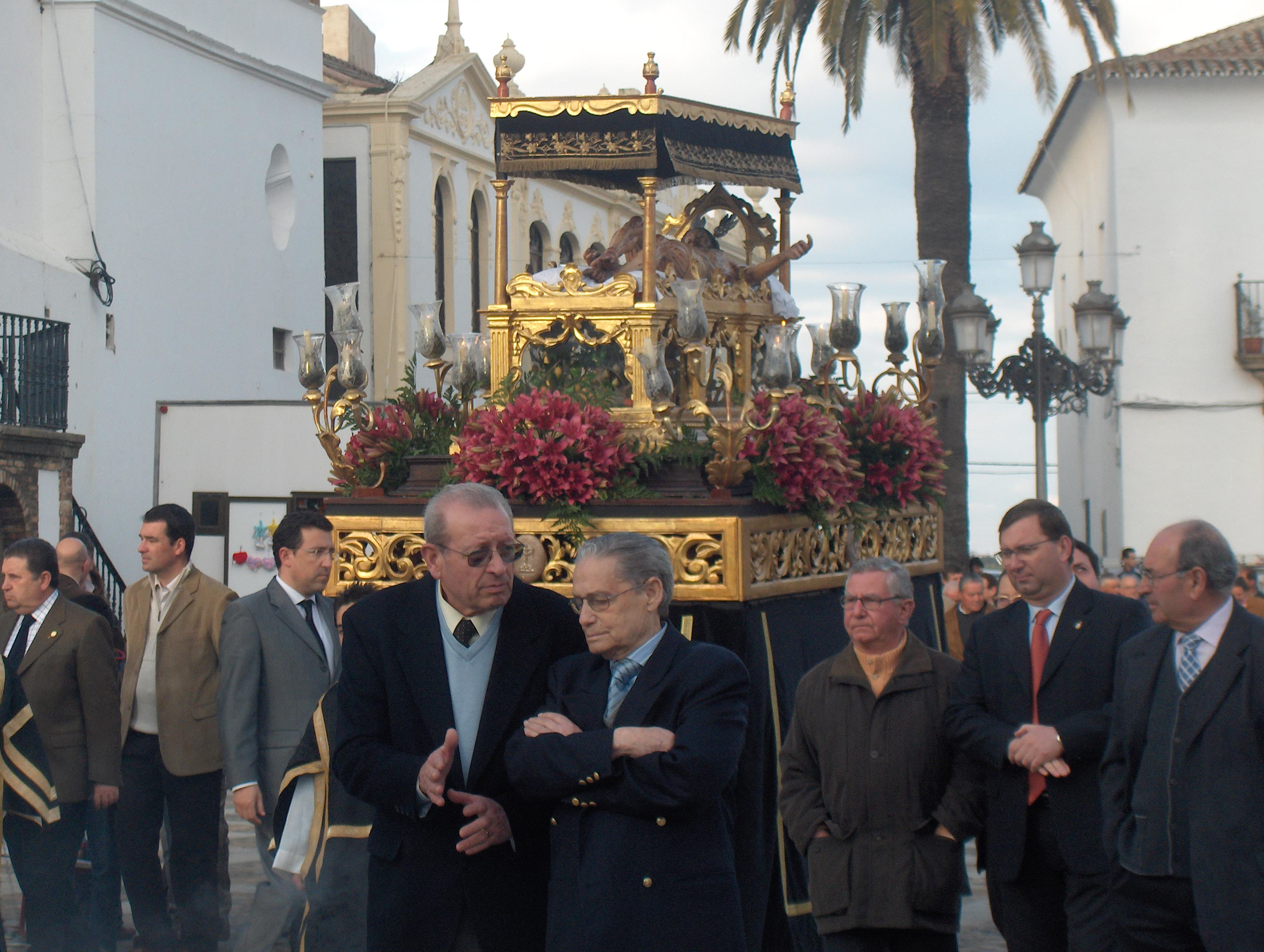 santo entierro